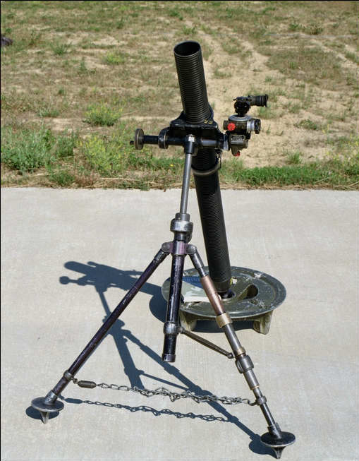 M29 81mm mortar